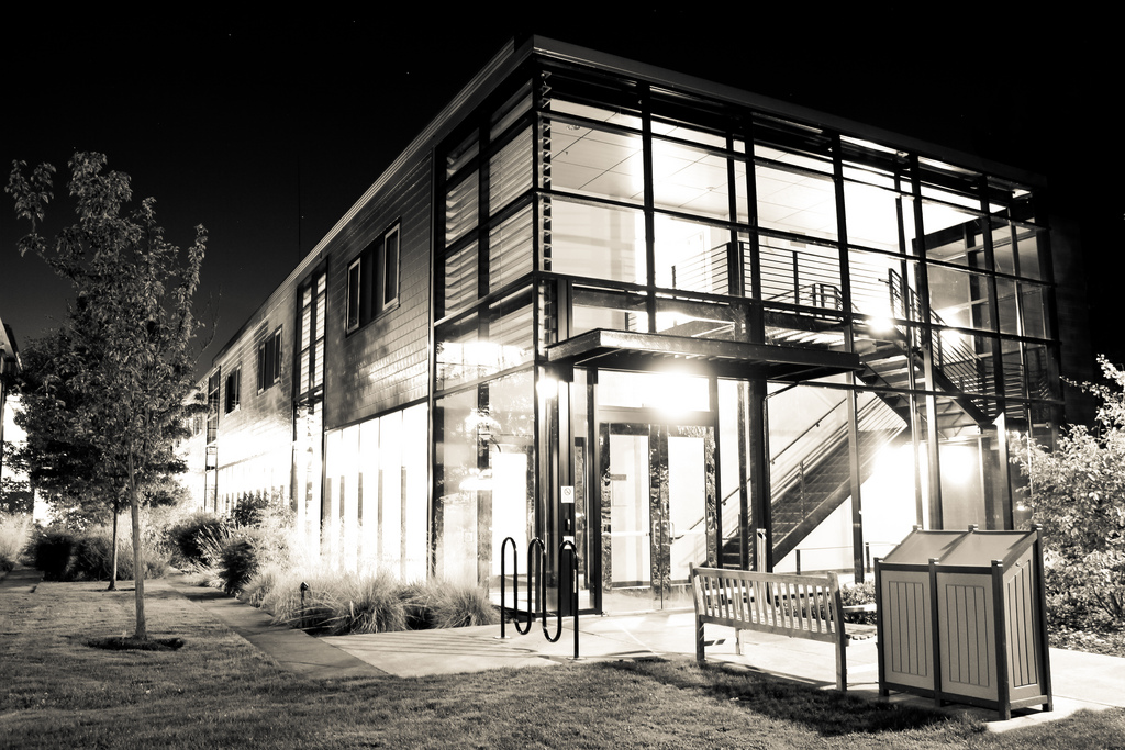 Long exposure shot of The Morken building on the campus of Pacific Lutheran University in Parkland, Washington.